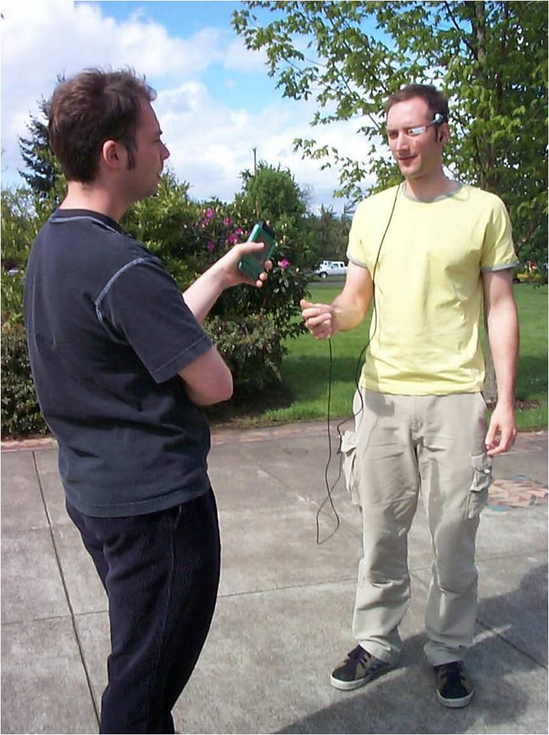 Subjects demonstrate the wearable augmented task-list interchange device